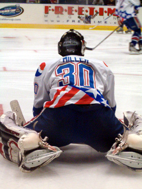 Ryan Miller, goaltender of Rochester Americans